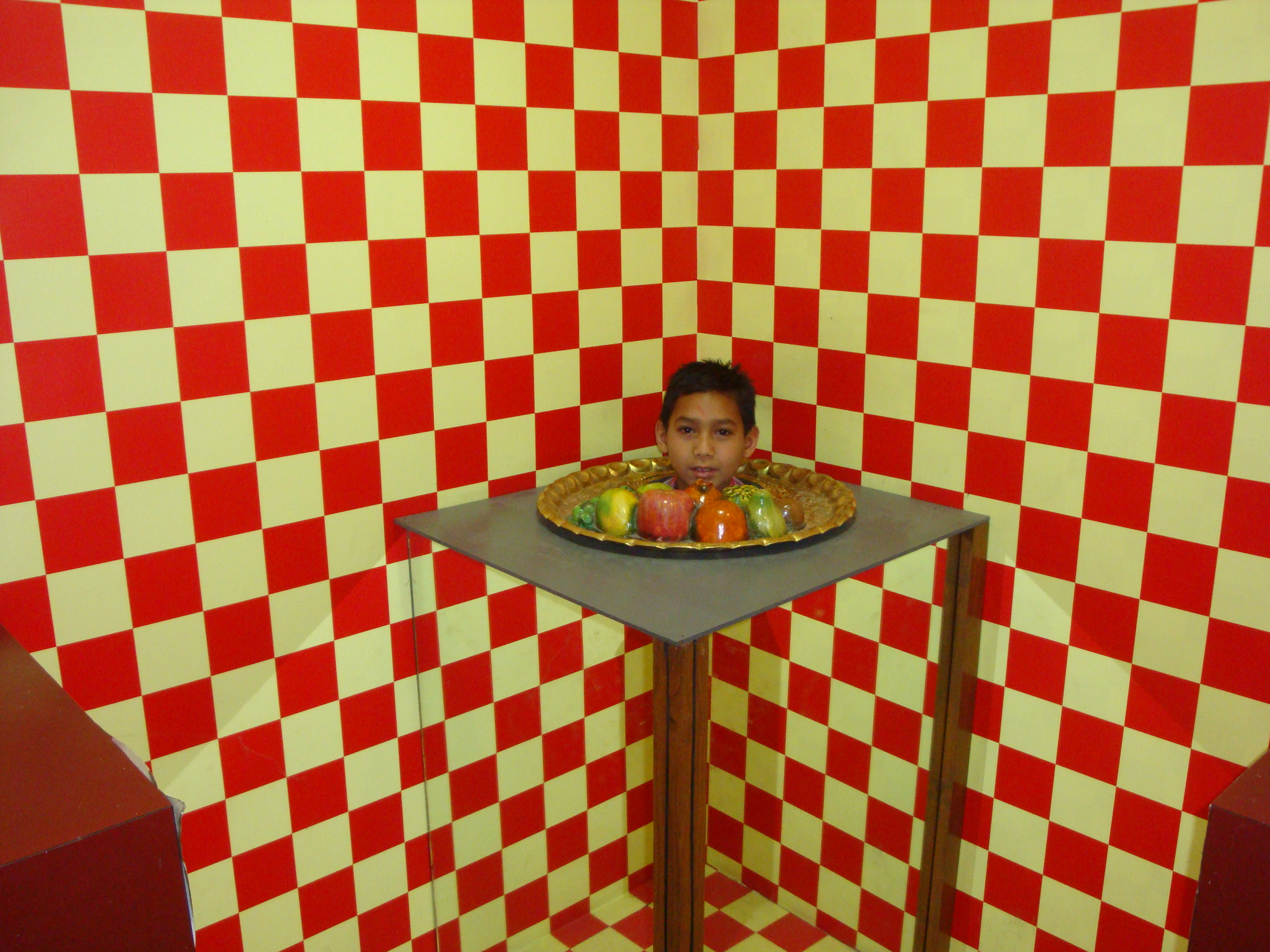 "Head on a Platter" exhibit at the Regional Science Centre, Bhopal. The kid entered the exhibit from the back and popped his head through the hole.